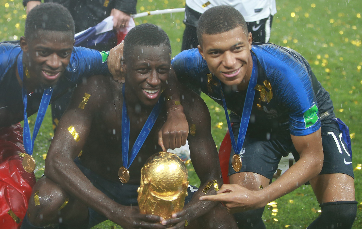 French footballer Benjamin Mendy holding the FIFA World Cup Trophy alongside teammates Ousmane Dembélé and Kylian Mbappé after the tournament's final match on 15 July 2018.